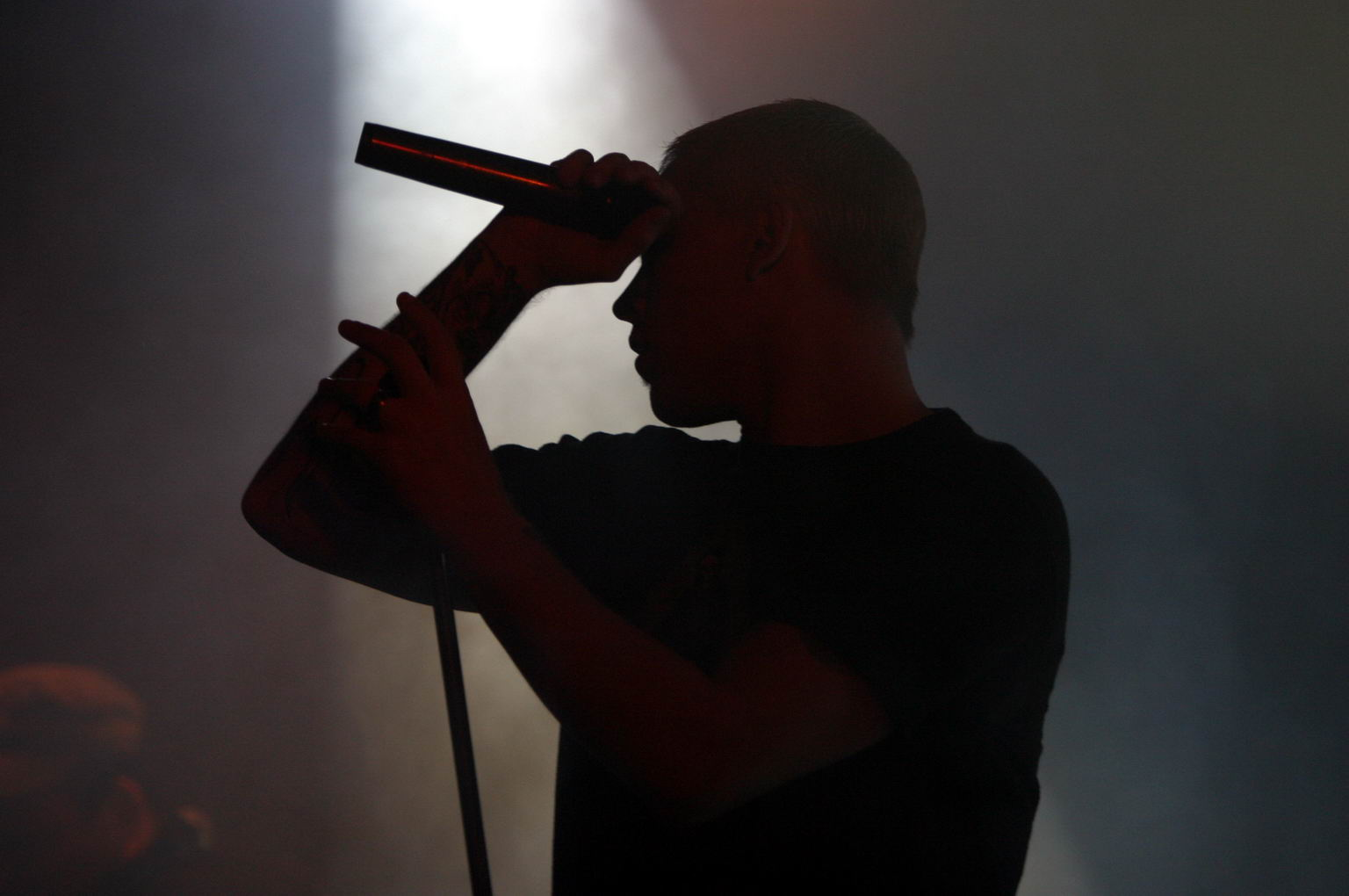 Icon of Coil